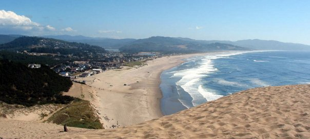 Pacific City seen from the top of the sand dune at Cape Kiwanda on the Oregon Coast. Nestucca Bay is in the distance.